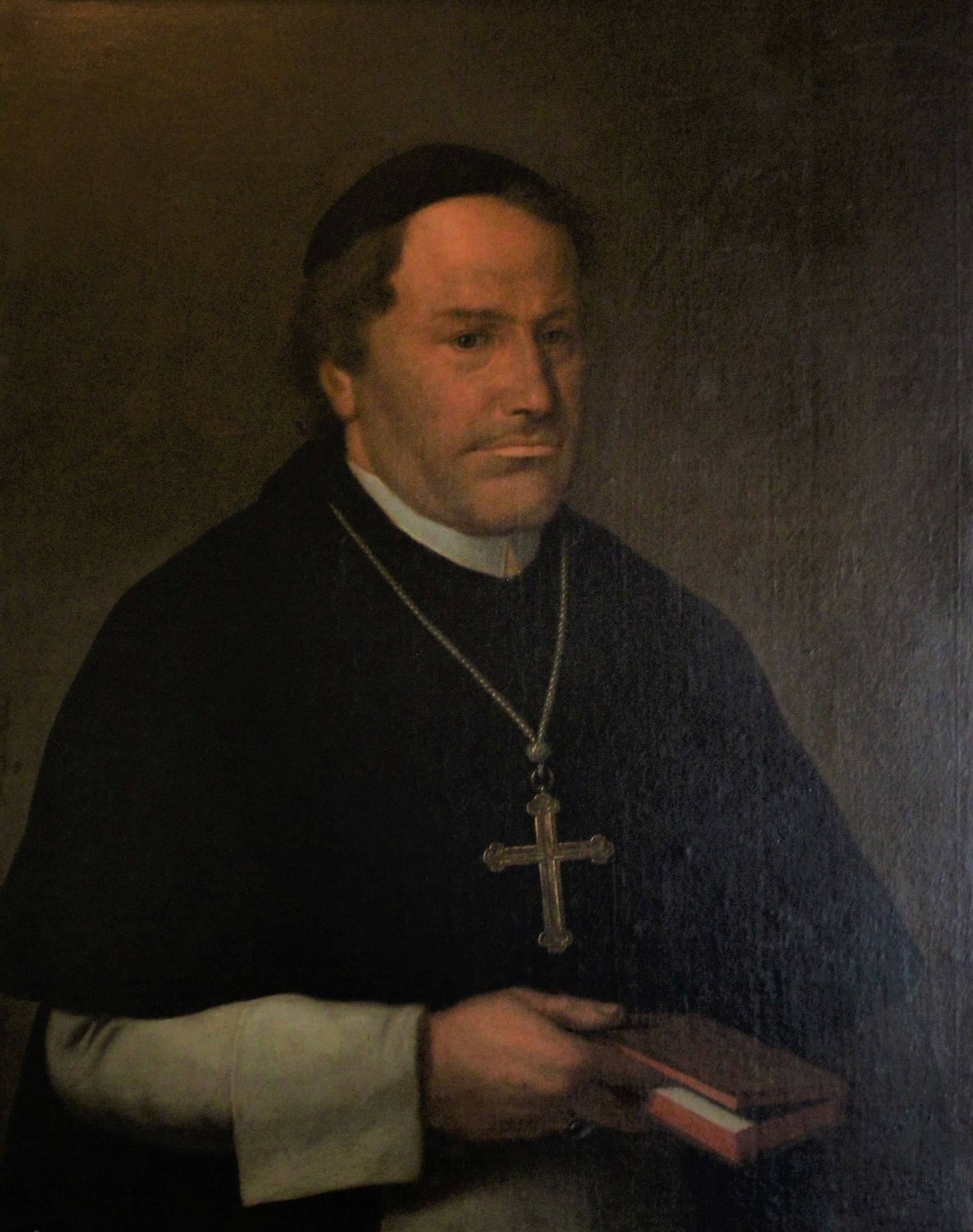 Domingos da Encarnação Pontével, O.P., Bishop of Mariana from 1778 to 1793